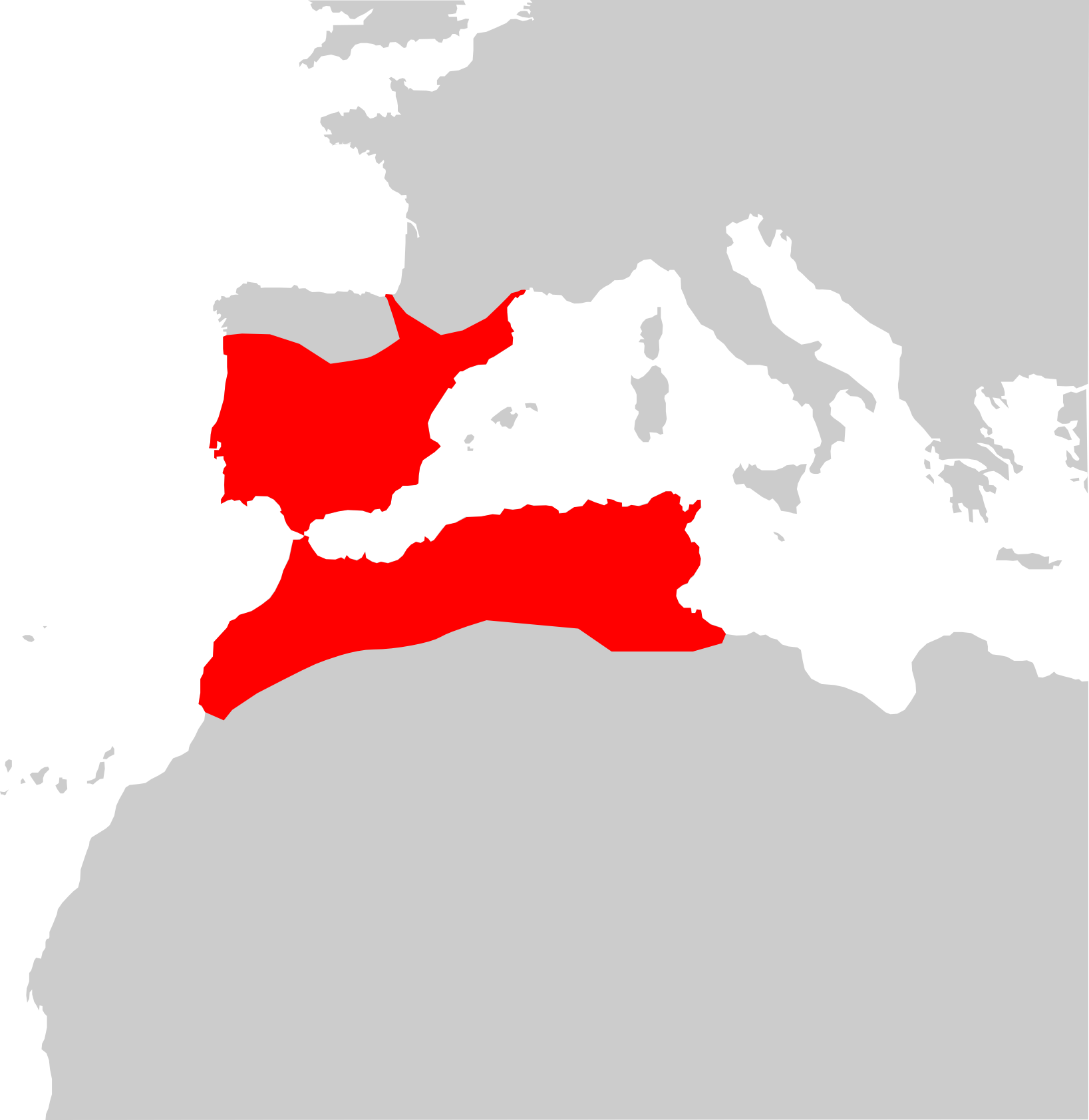 Mauremys leprosa range map.